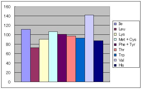 Amino Acid Score of Potato